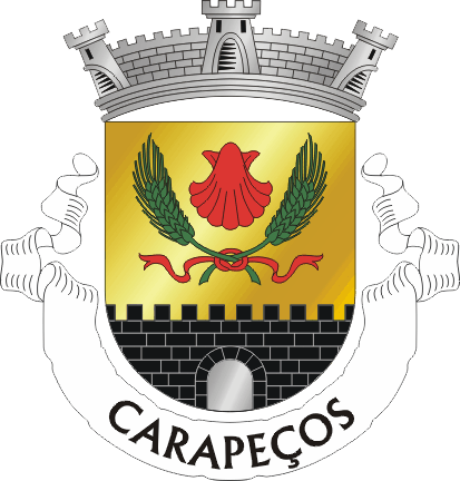 Crest of Carapeços, a parish in the municipality of Barcelos (Portugal)